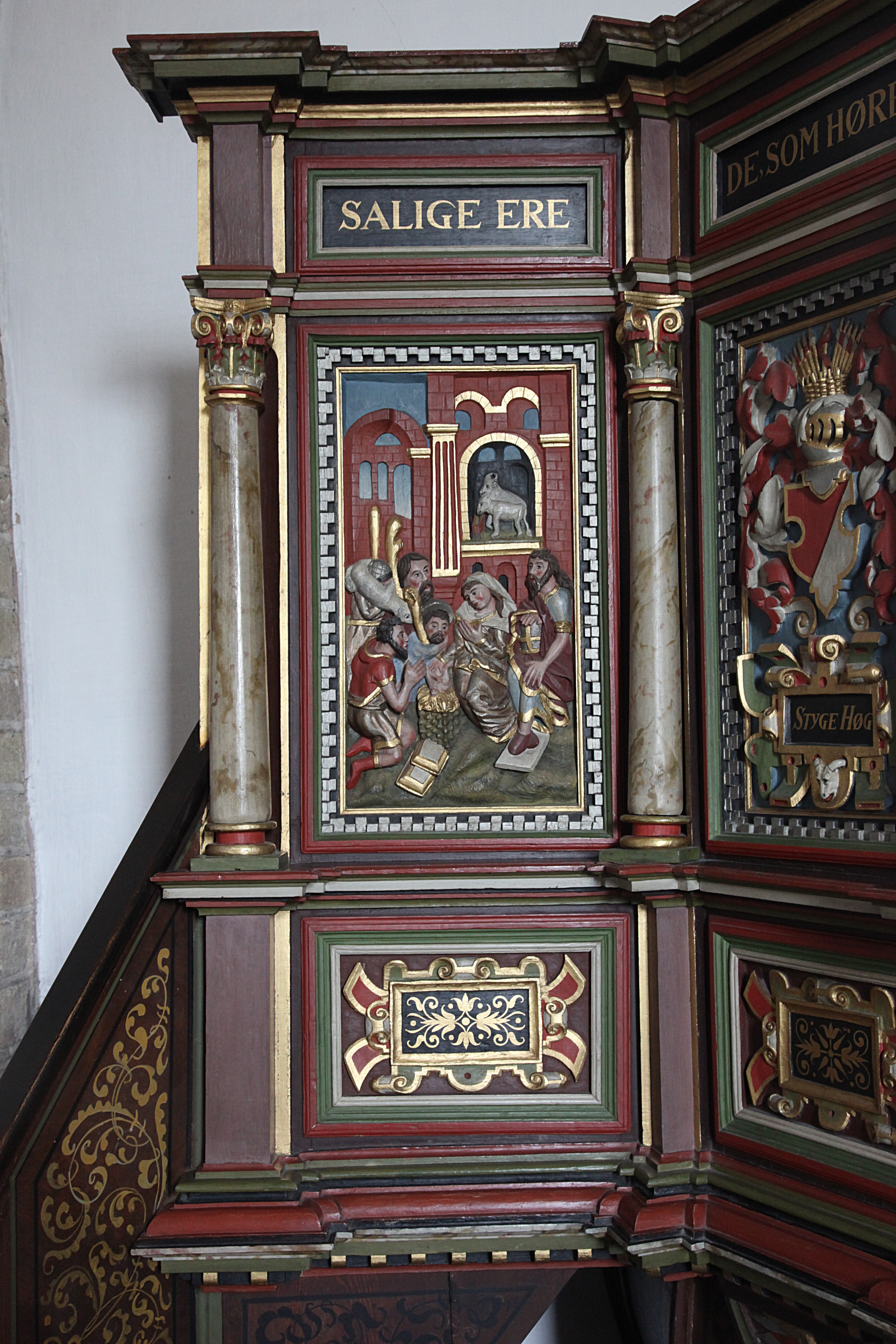 Pulpit in Sulsted Kirke just north of Aalborg, Denmark